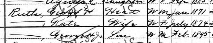 George Herman Ruth Sr. family 1900 US Census